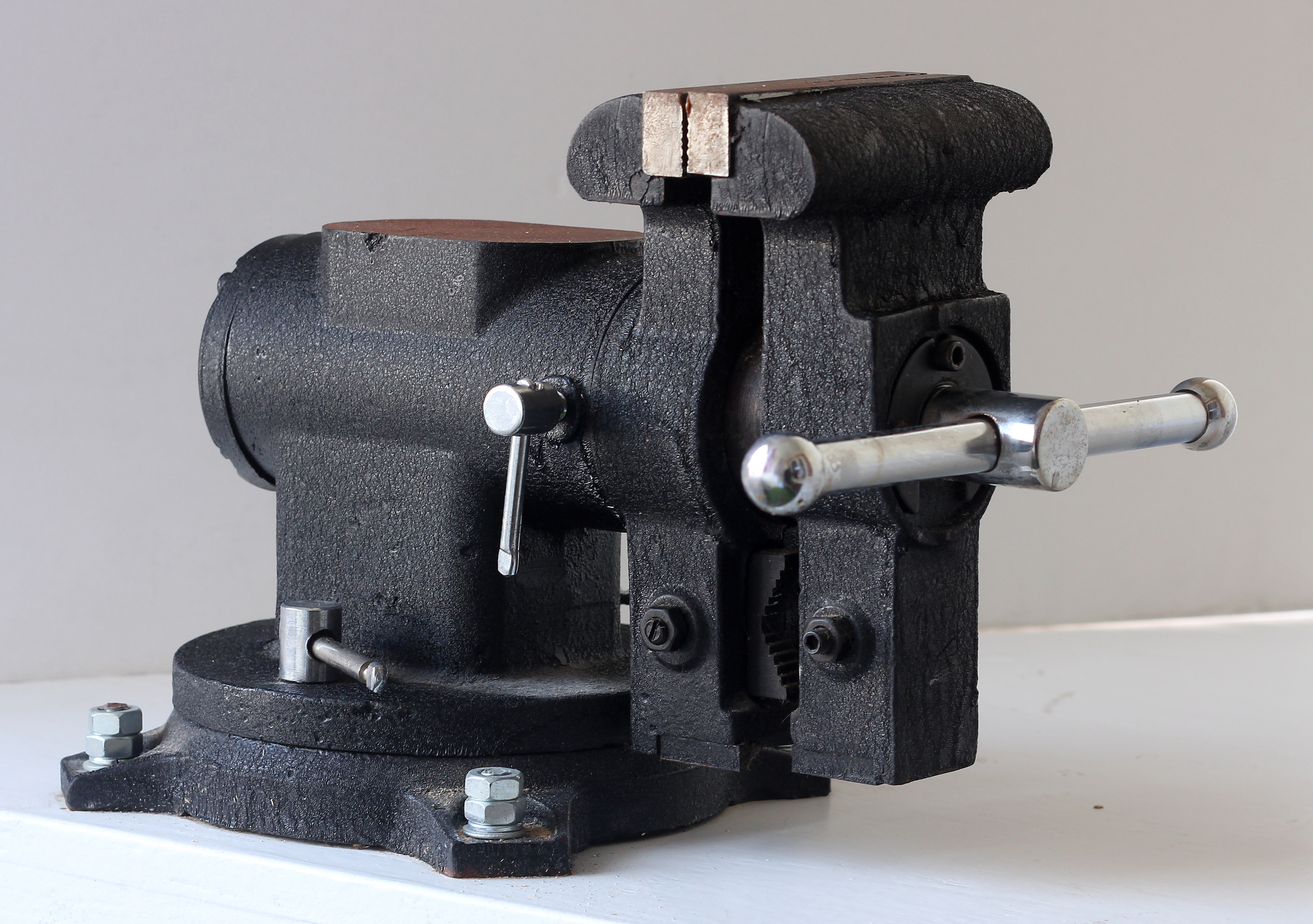 An engineer's vise